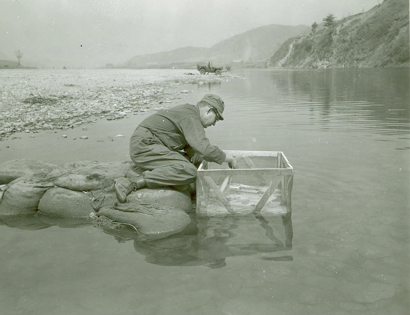 A laboratory technician of the 4th Signal Battalion, U.S. Eighth Army, washes prints in a river in Korea, using a fine weave screen basket. The sand bag pier was constructed in order to reach water of sufficient depth and rate of flow to wash prints properly. No other means of washing prints was been available.